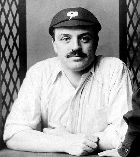 Sport, Cricket, Circa 1905, Schofield Haigh, the Yorkshire and England cricketer, pictured with an unidentified child